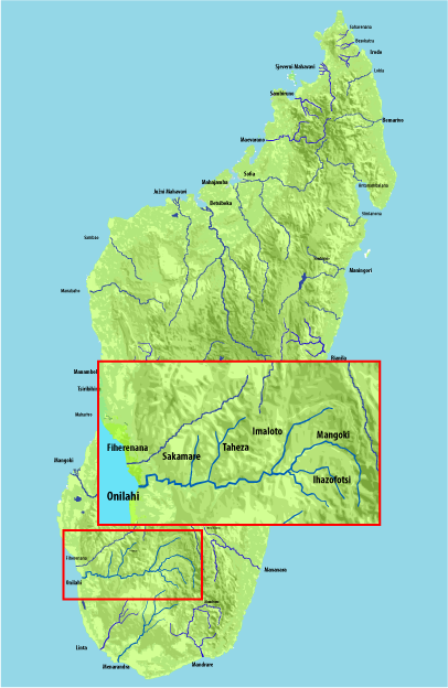 Basin of river Onlahy